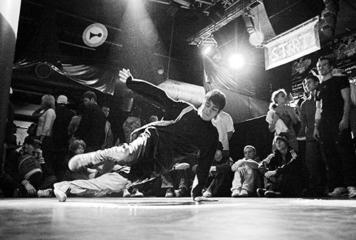 A b-boy performing at Freestyle Session in 2006.